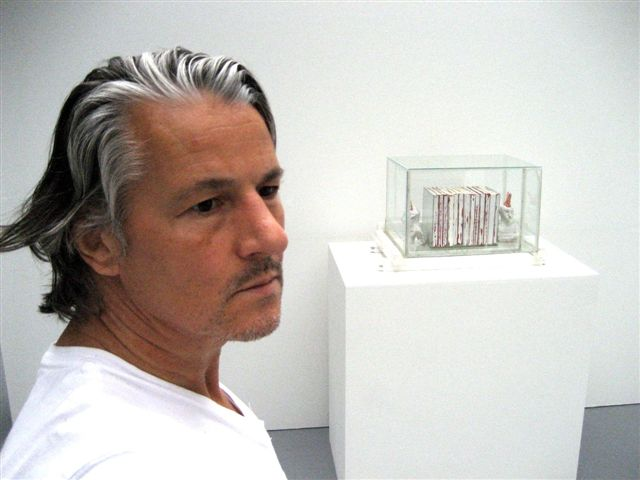 selfportrait clemens weiss, with artwork, düsseldorf 2008